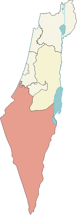 Israel's South District within Israel.